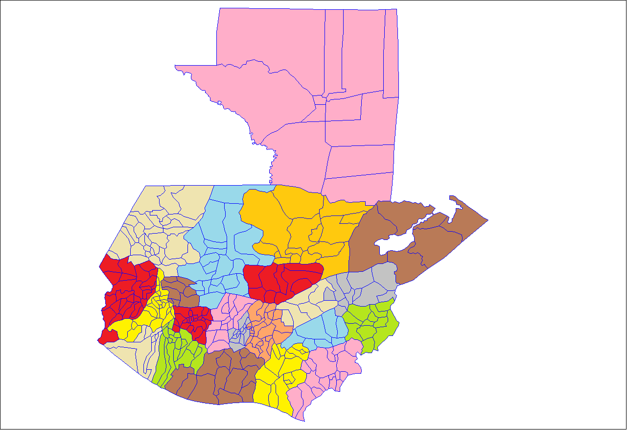 Map of the municipalities of Guatemala. Created by Rarelibra 15:14, 12 April 2007 (UTC) for public domain use, using MapInfo Professional v8.5 and various mapping resources.